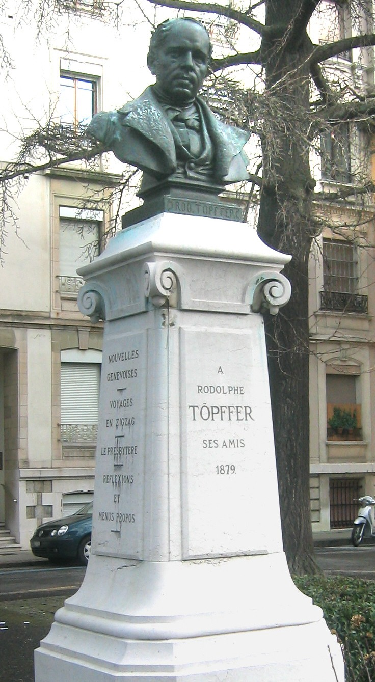 Geneva, Switzerland: Rodolphe Töpffer monument in January 2004